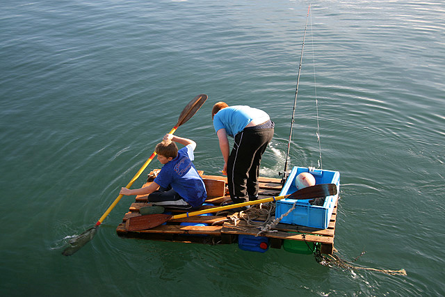 Off we go A couple of youngsters are leaving Burnmouth harbour on a wooden crate raft for some fishing a short distance outside the harbour.